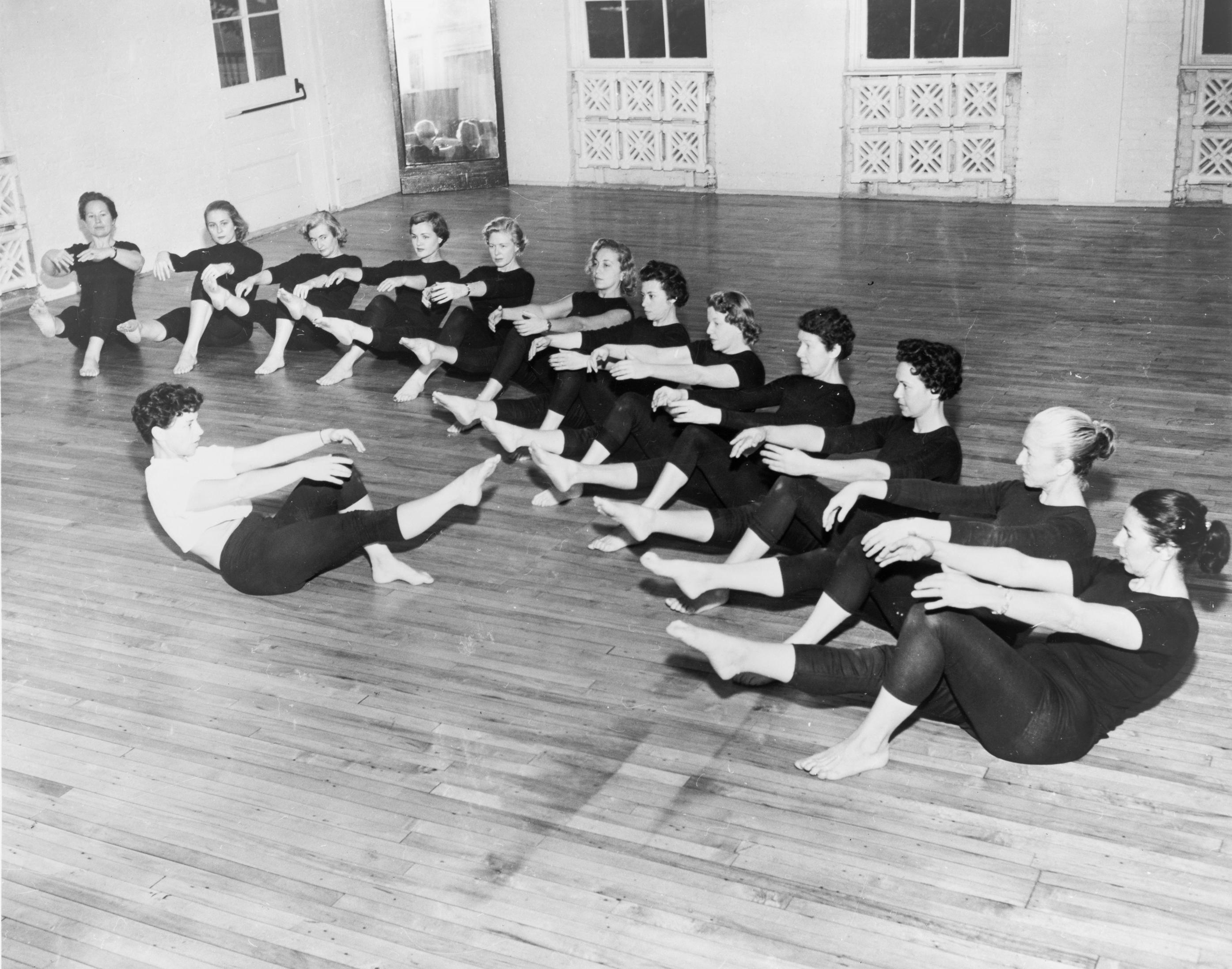 Bonnie Prudden, American rock climber and physical fitness advocate, leads a class in exercises at her White Plains school.